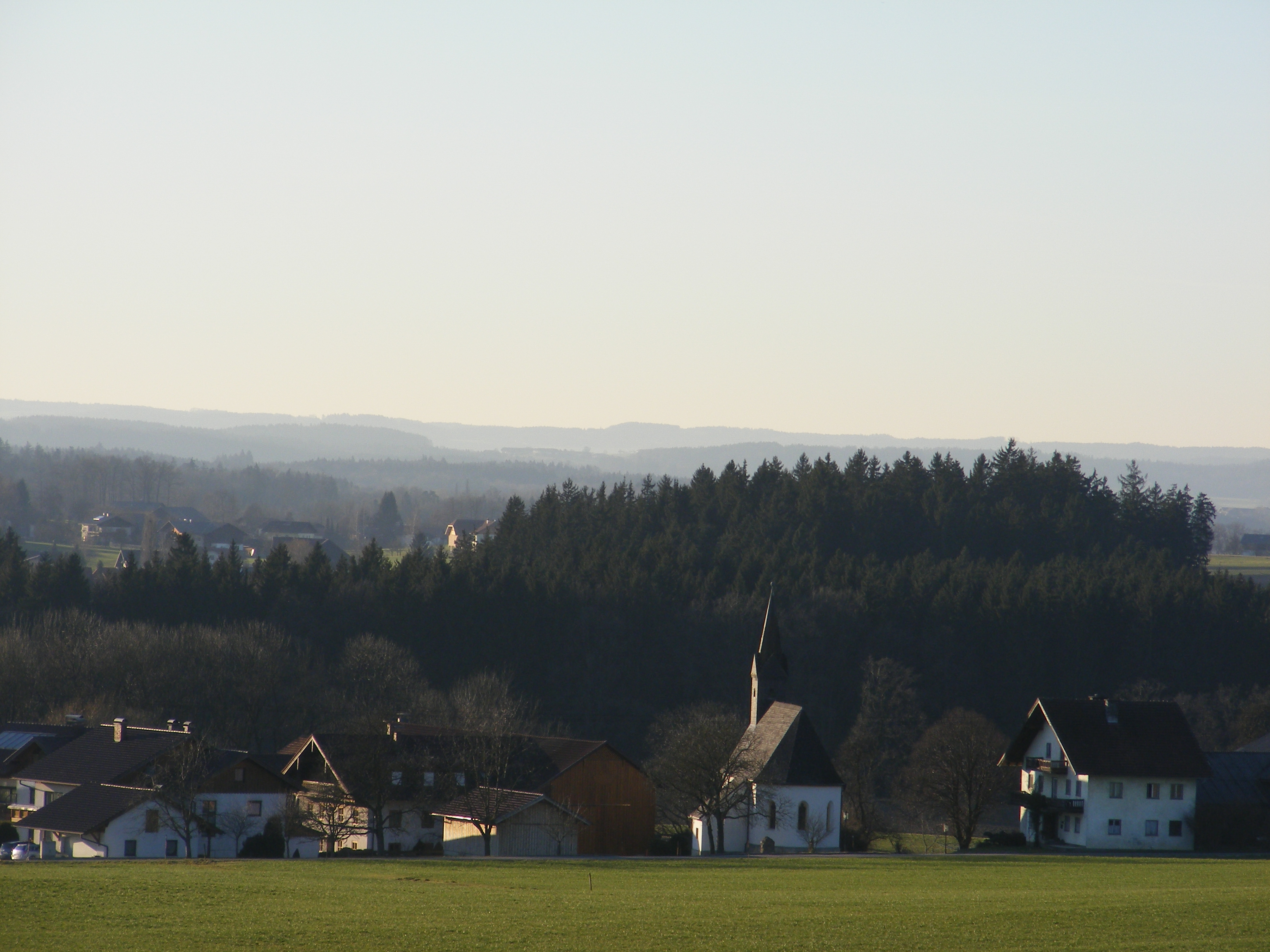 Hamlet of Kirchgöming, municipality of Göning, in the north of Salzburg state, Austria.